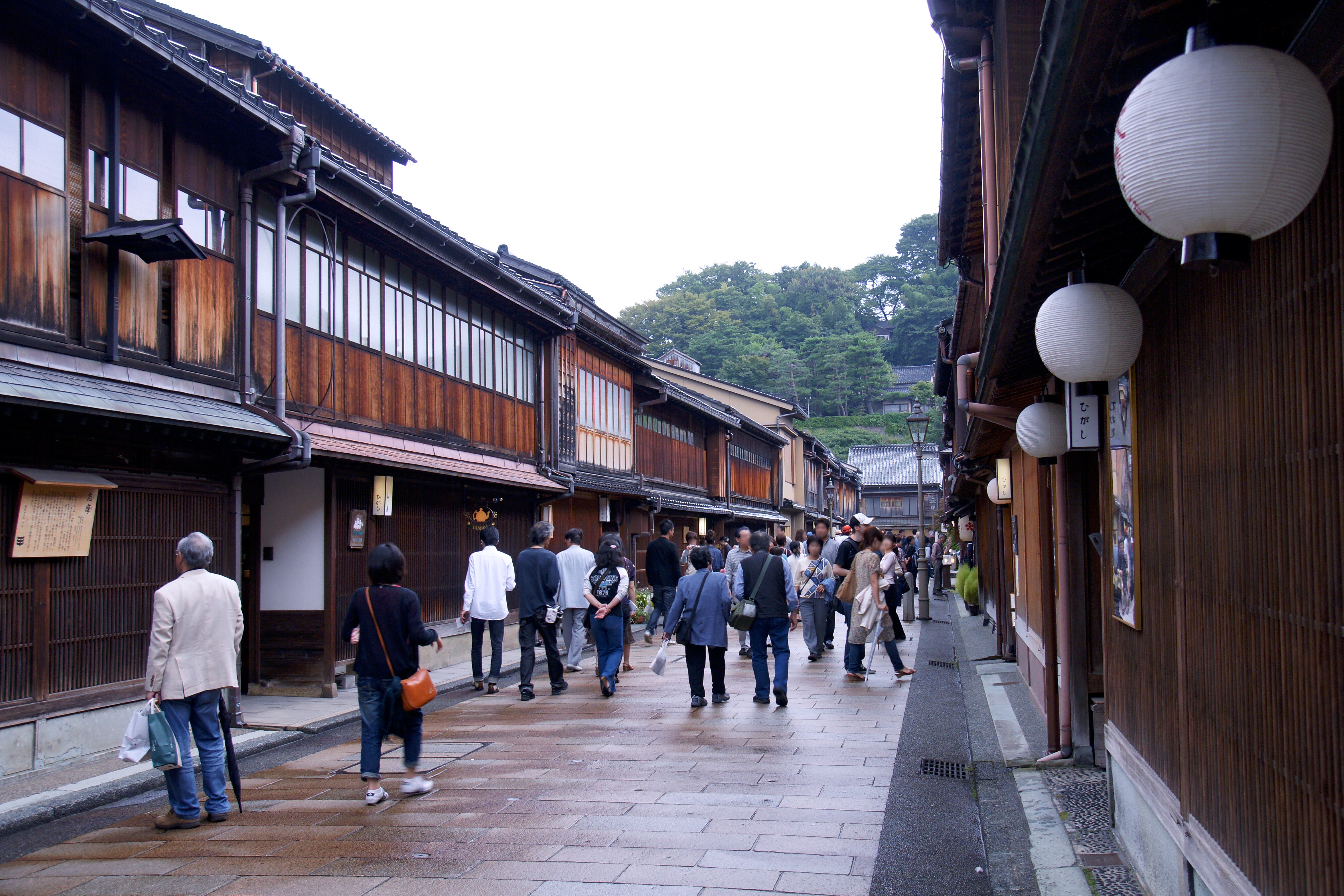 Higashiyama-higashi in Kanazawa, Ishikawa prefecture, Japan